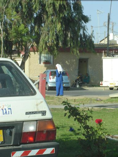 Black Hebrews in Damona